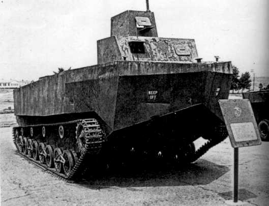 Type 4 Ka-Tsu, an Imperial Japanese Navy amphibious landing craft of World War II.